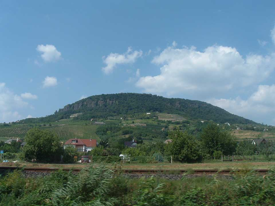 The Mount Badacsony, Hungary